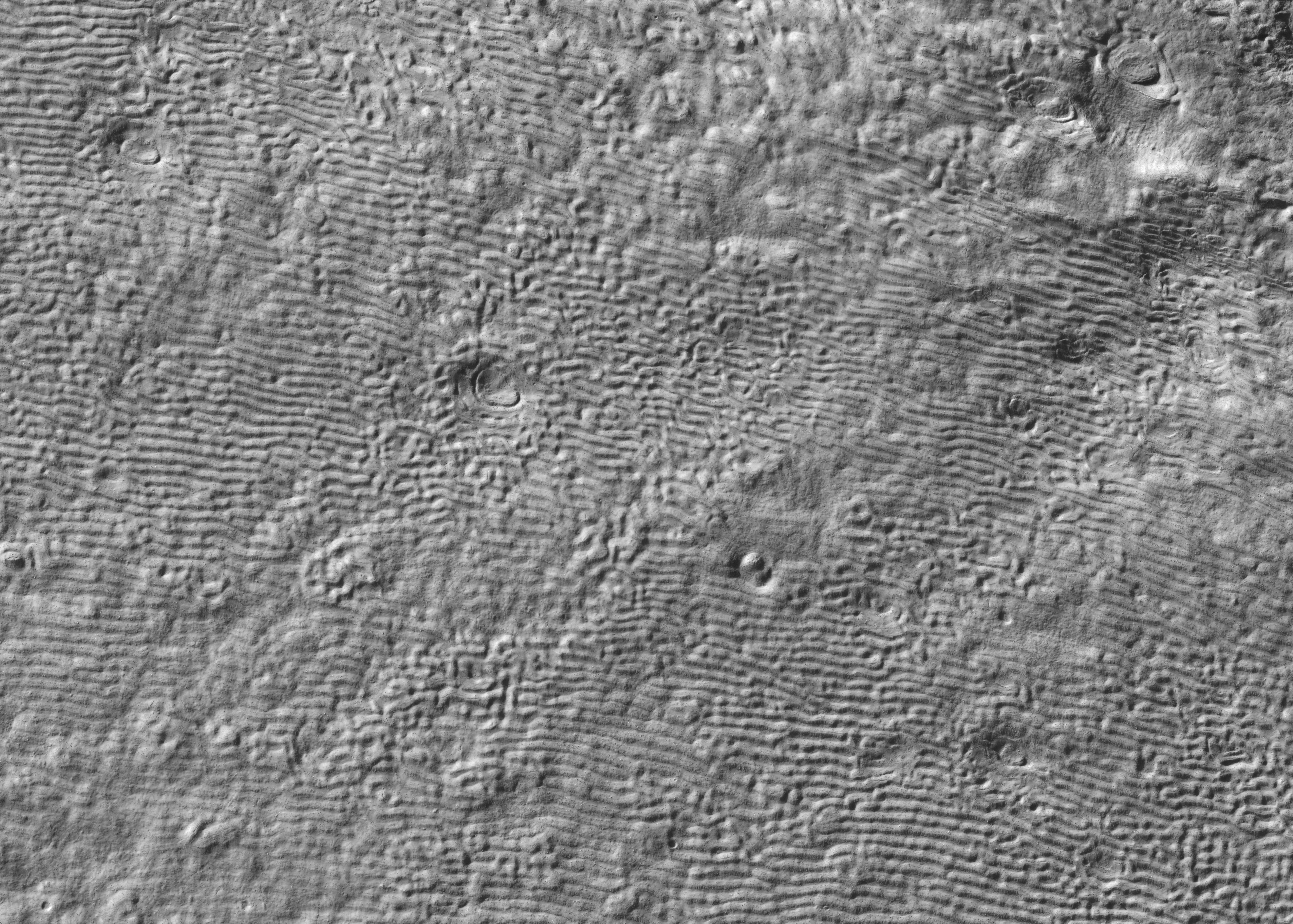 Linear features at the bottom of Reull Vallis photogprahed by Mars Reconnaissance Orbiter.